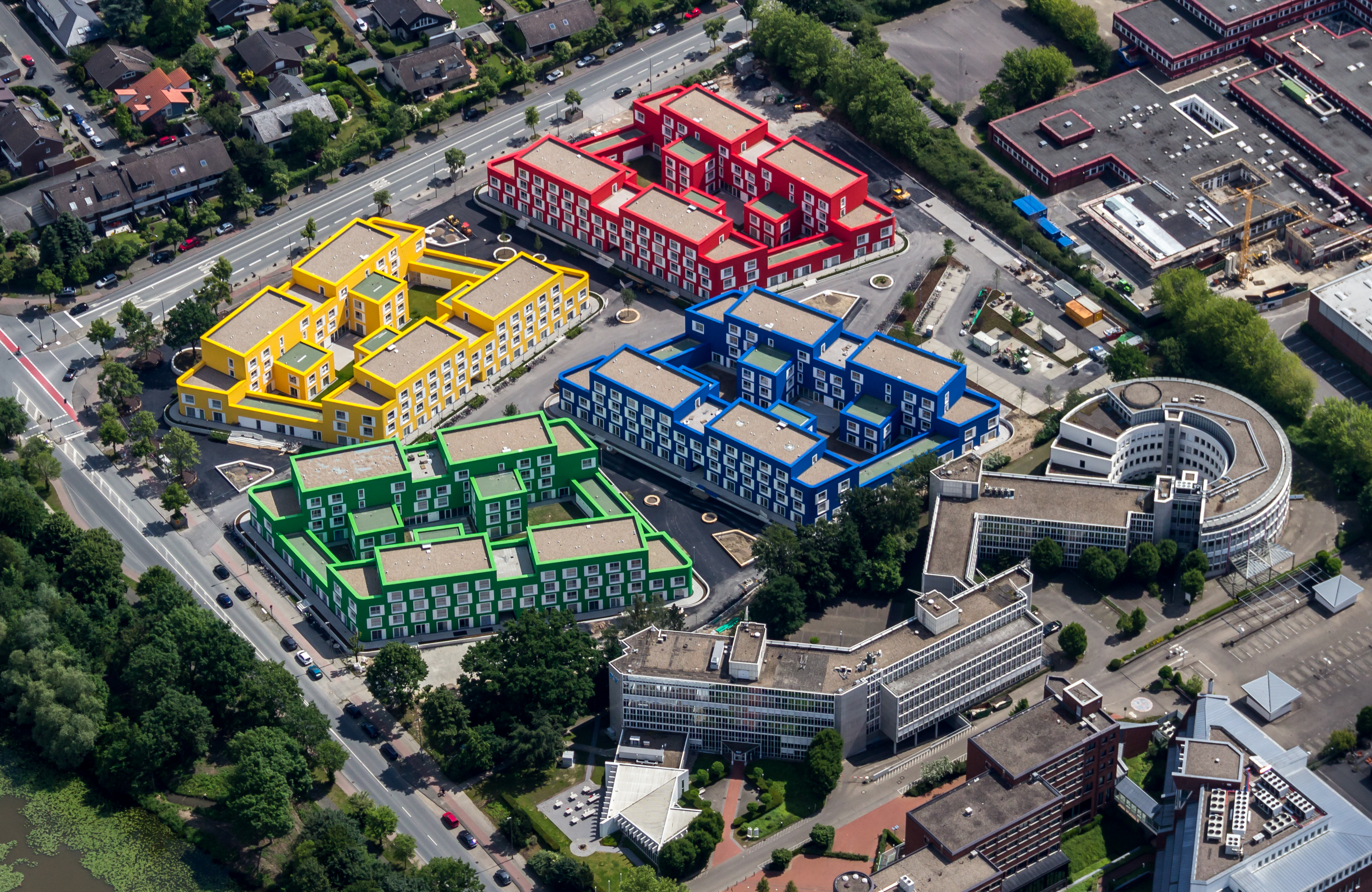 Studenten-Wohnanlage Boeselagerstraße, Münster, North Rhine-Westphalia, Germany